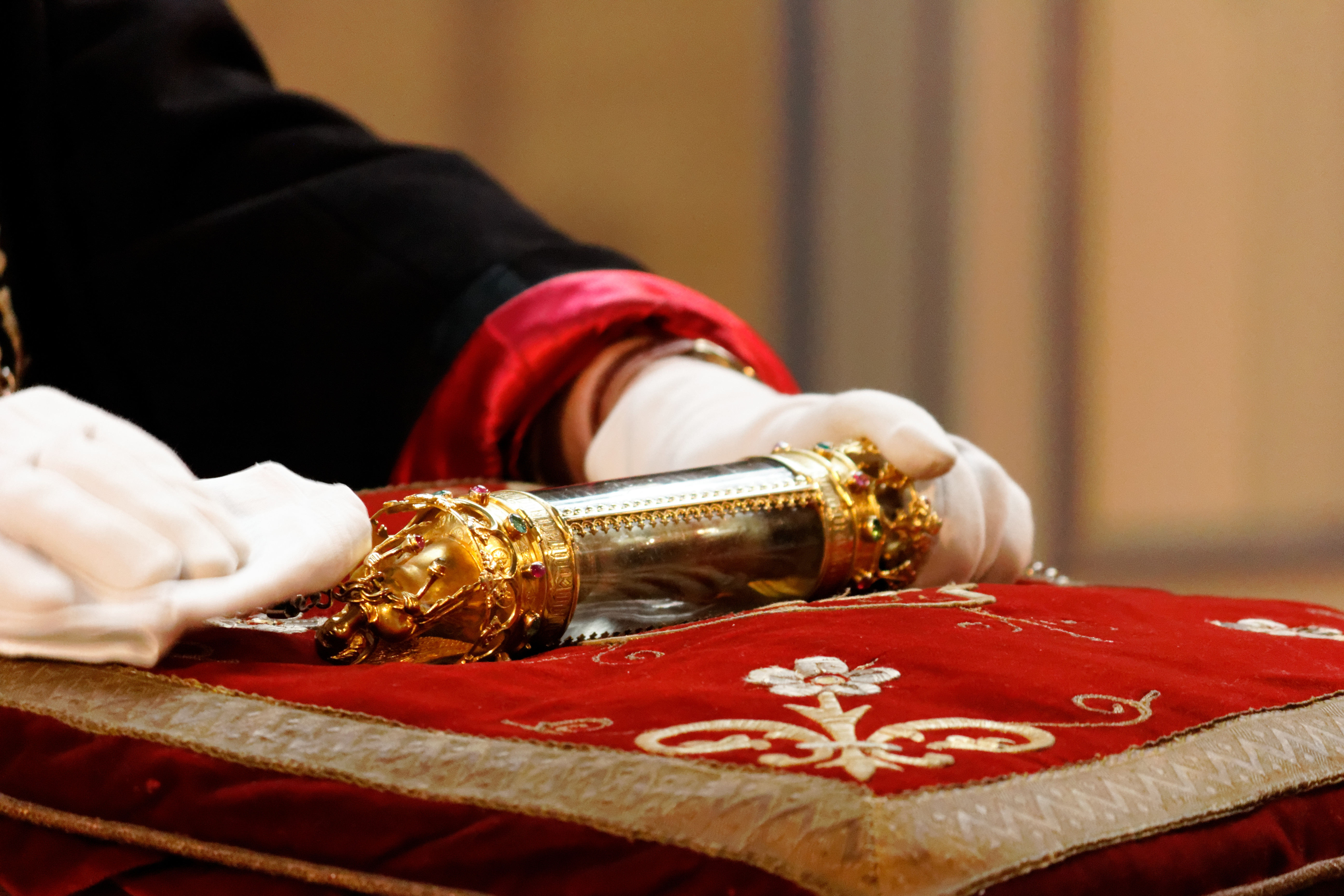 Holy Blood reliquary, Bruges, Belgium.